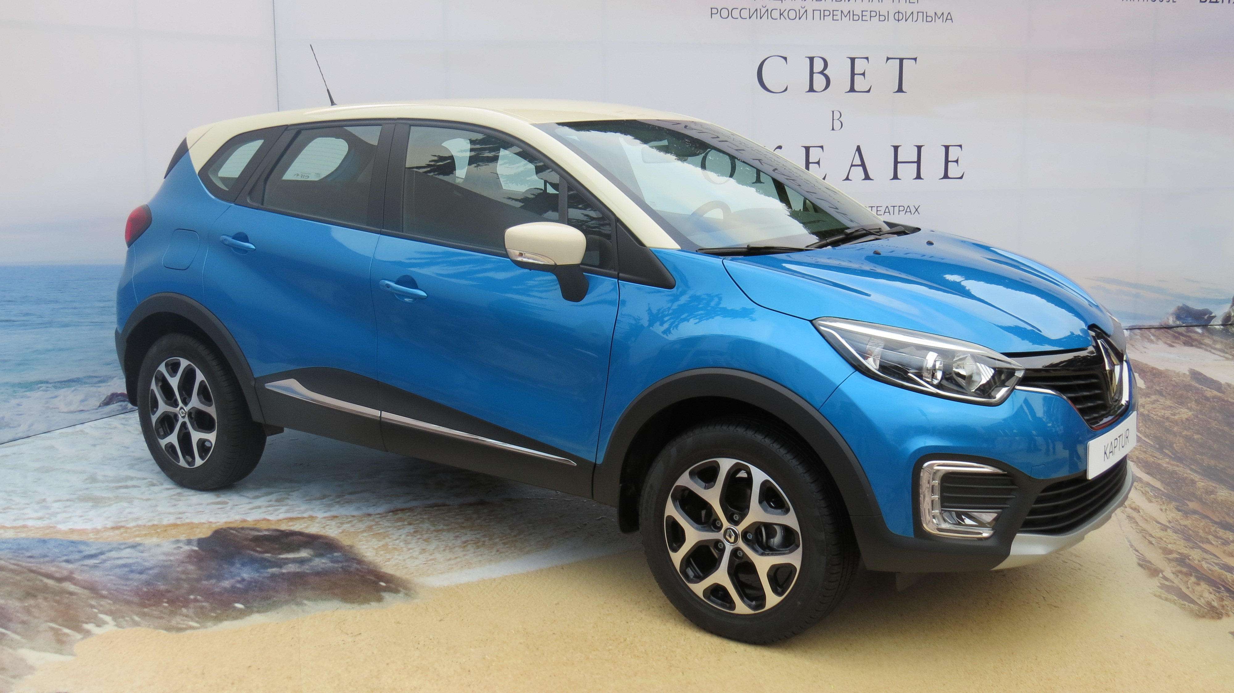 Renault Kaptur